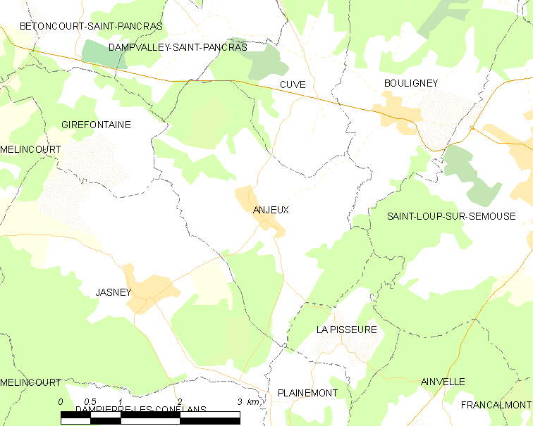 Map of French municipality